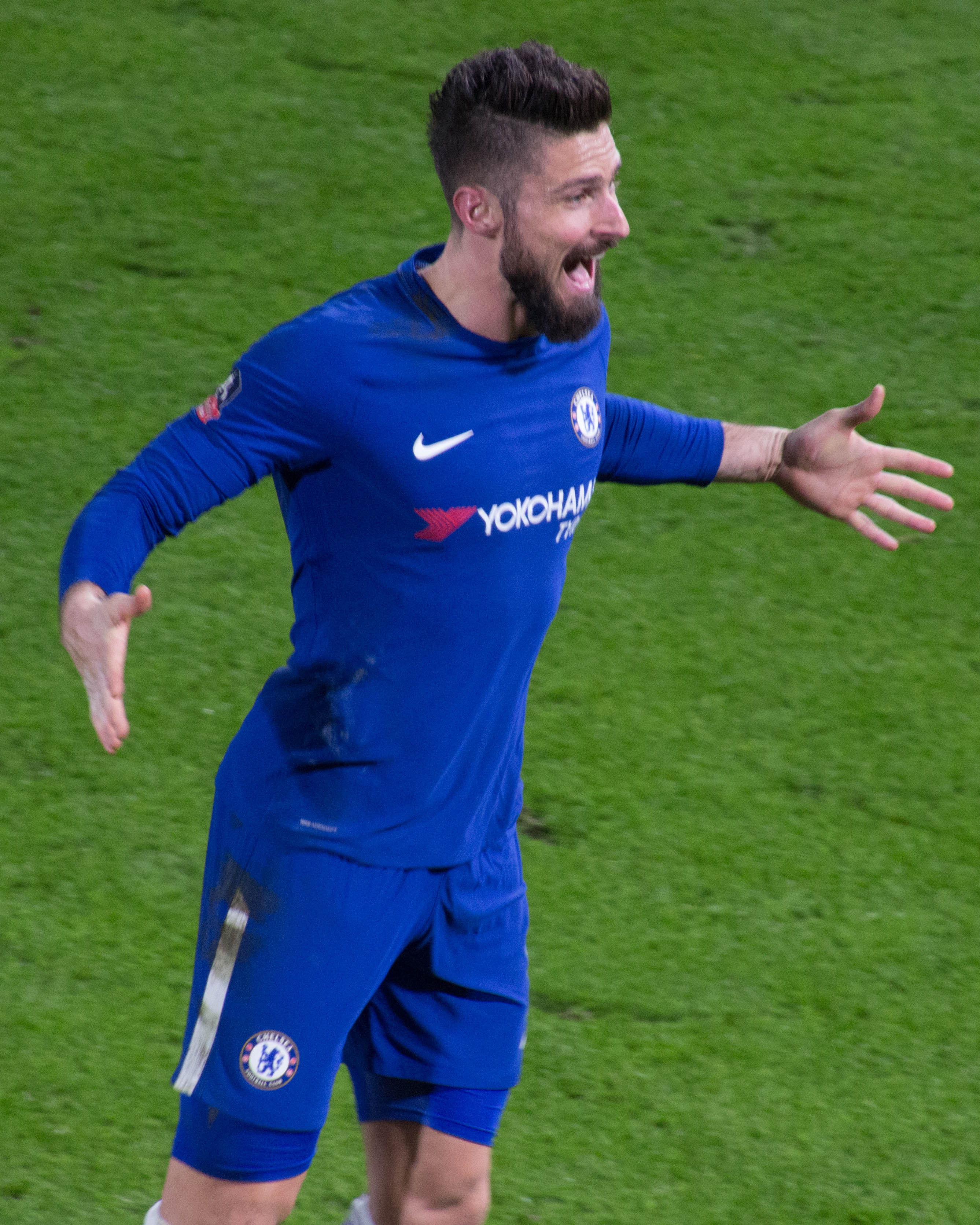 FA Cup 5th round 16.2.18